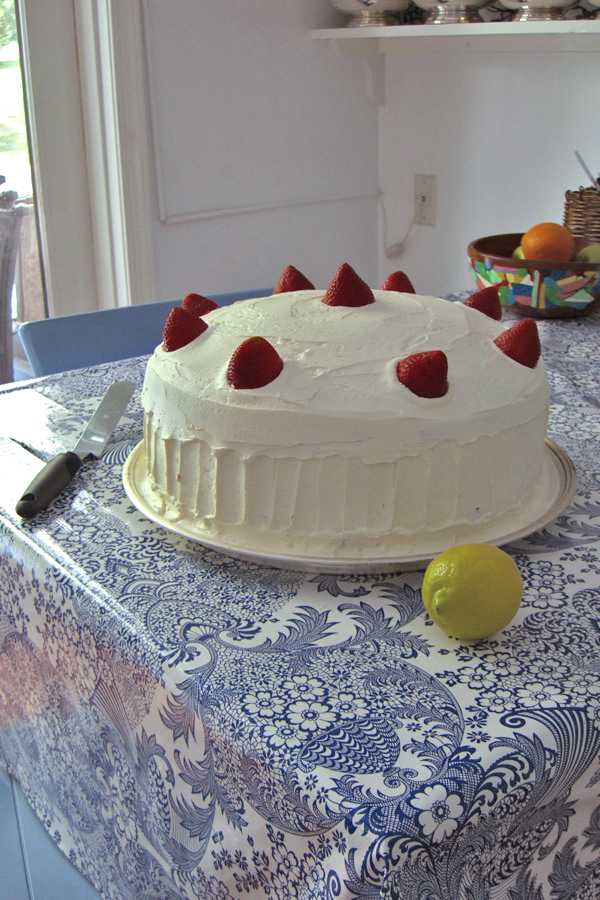 Strawberry Cake